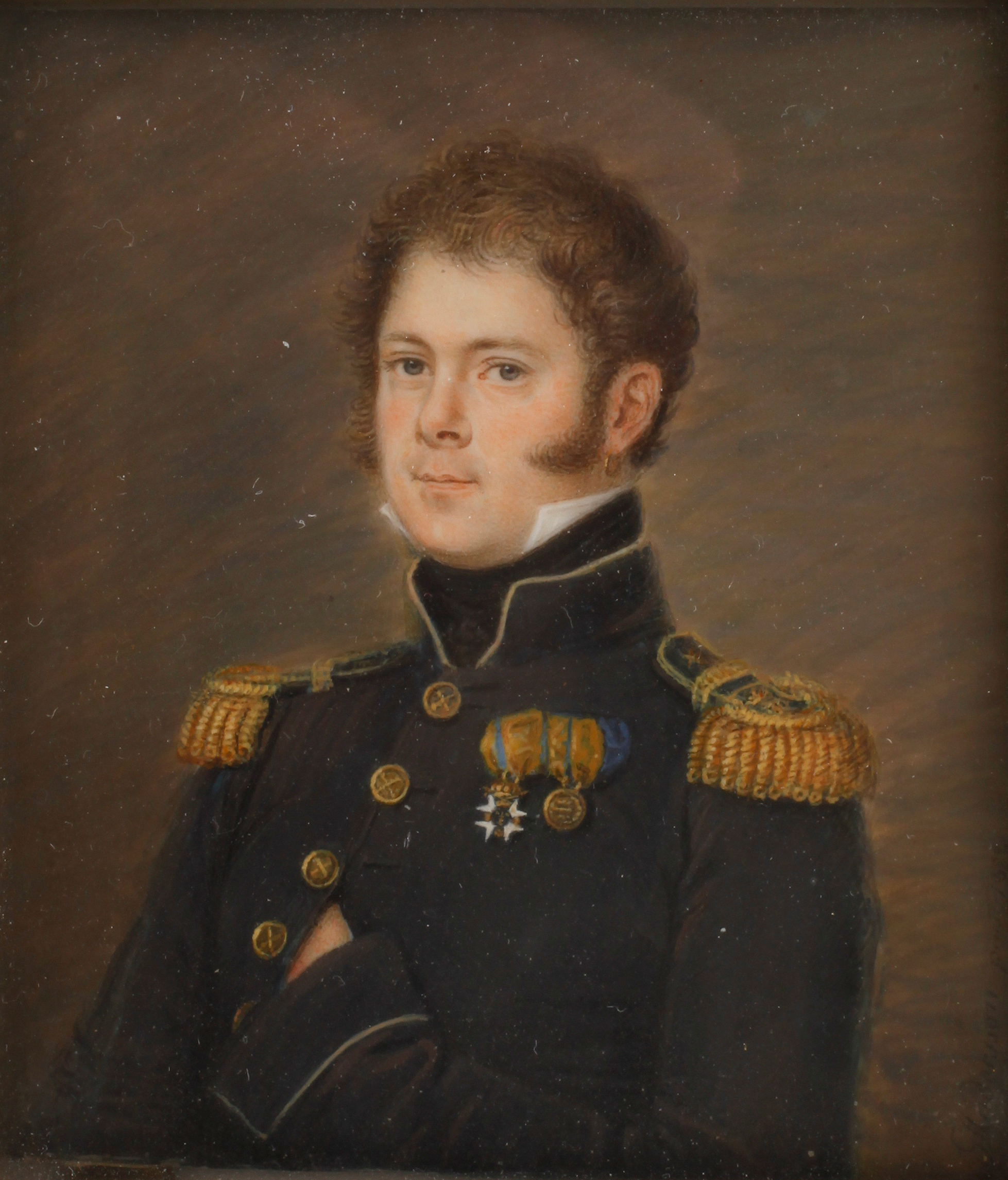 Count Filip Bogislaus von Schwerin (1790-1865), wearing the uniform of a colonel of the general staff. He is wearing the order of the sword and the gold medal "For Valour in the Field" (för tapperhet i fält). Painted in 1822 by Anders Gustaf Andersson (1780-1833). Gouache on bone.